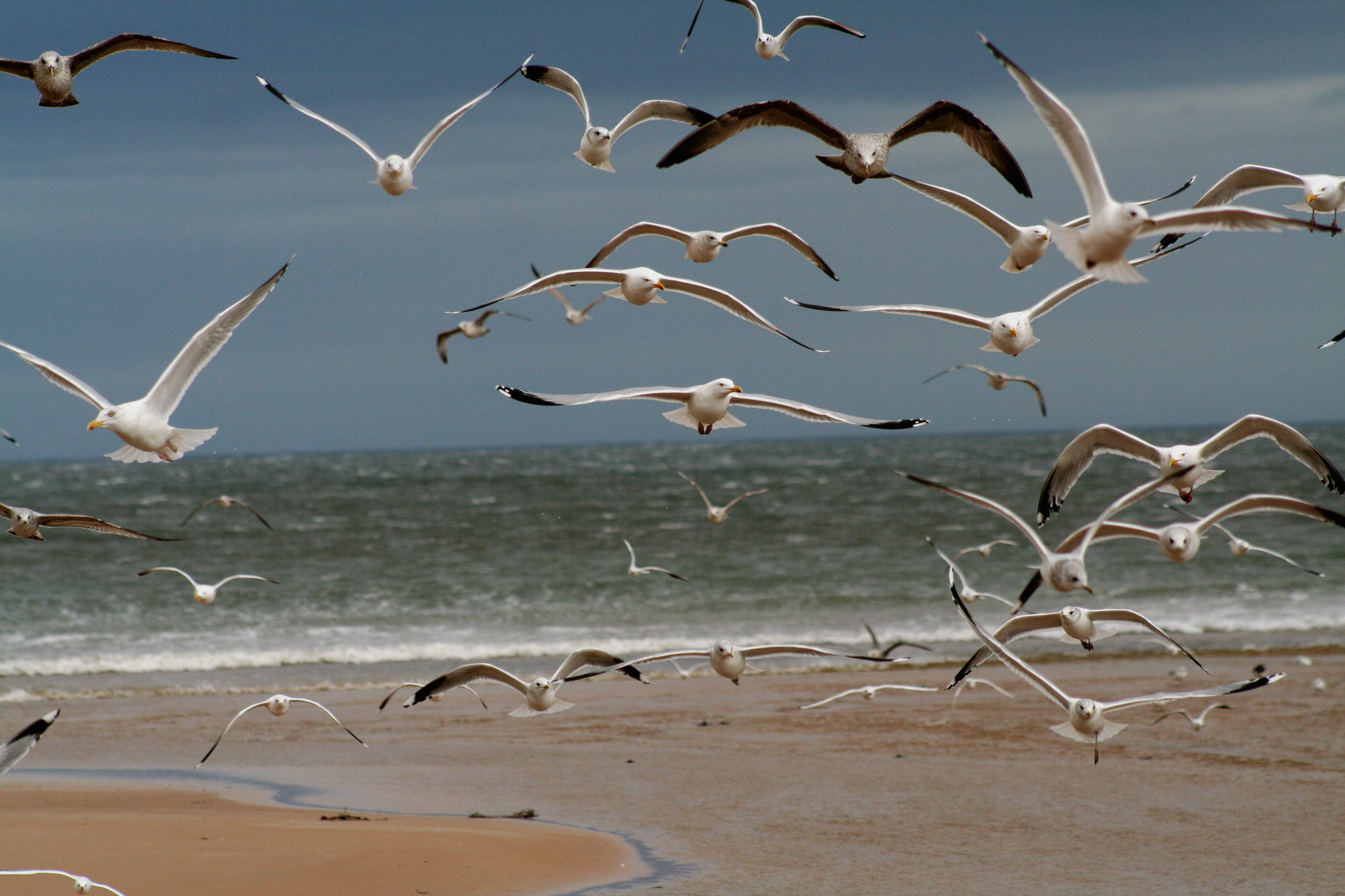 Mixed flock of Larus argentatus and Larus canus. A scene that Daphne du Maurier, Alfred Hitchcock and Tippi Hedren can all be proud of - my own private screening of "The Birds"! Quite amazing how many gulls you can attract with a stale baguette!